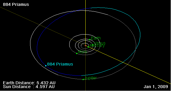 884 Priamus orbit, and his position on 01 Jan 2009 (NASA Orbit Viewer applet)